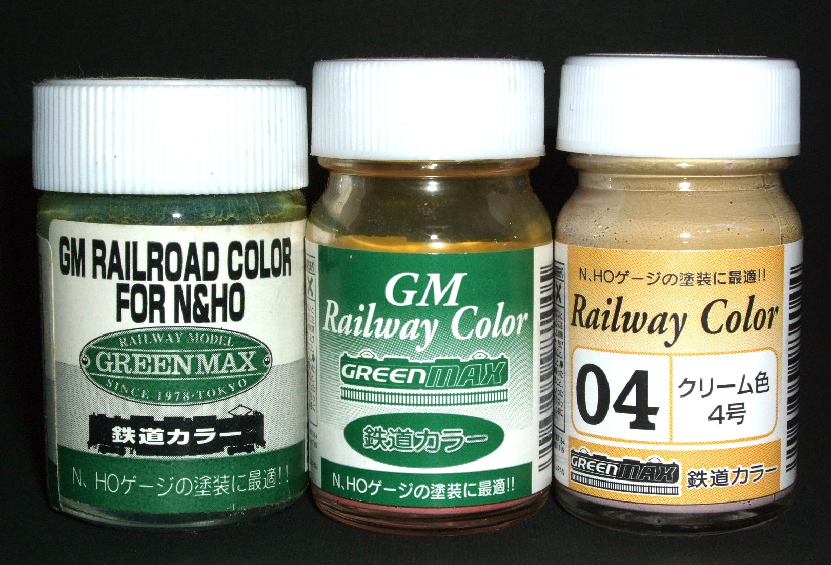 Railway color bottle(by GREEN MAX)